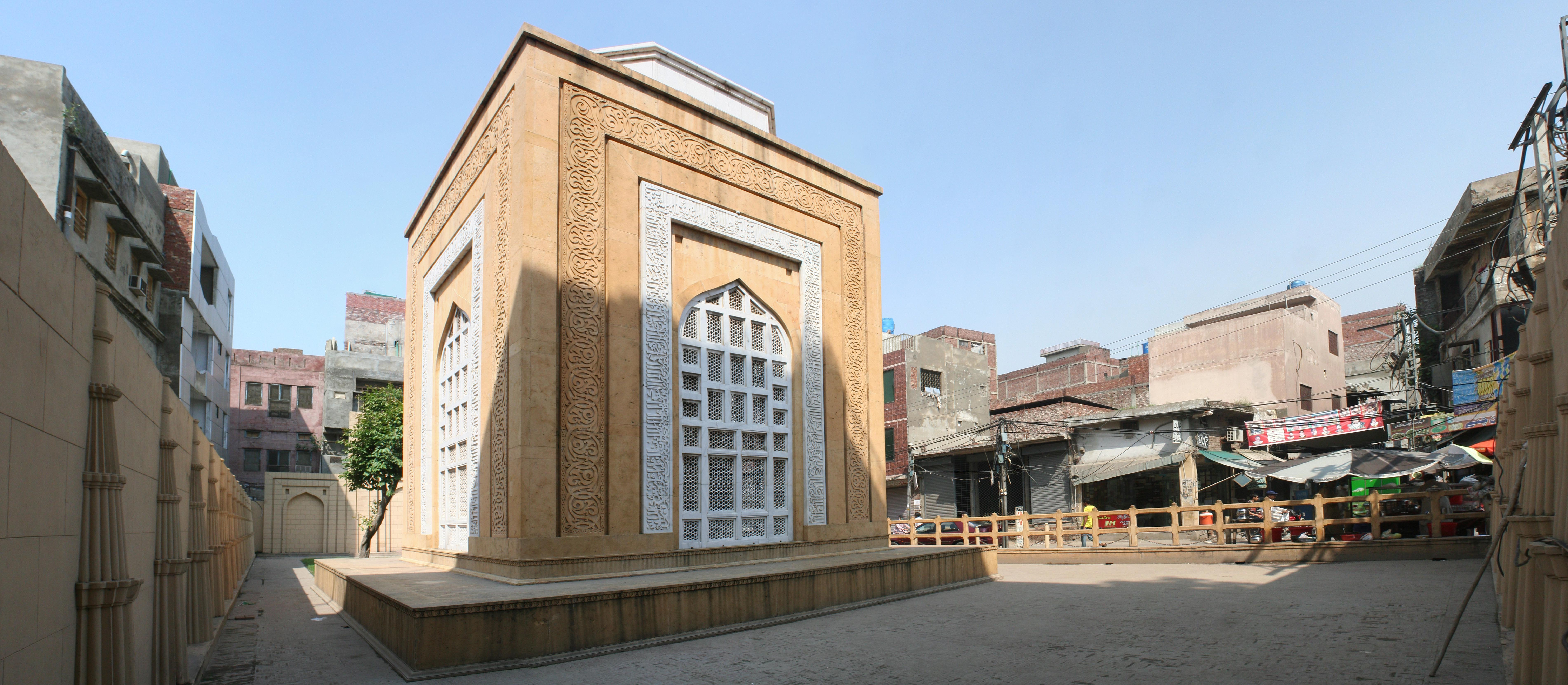 Tomb of Qutb-ud-din Aibak This is a photo of a monument in Pakistan identified as the PB-76